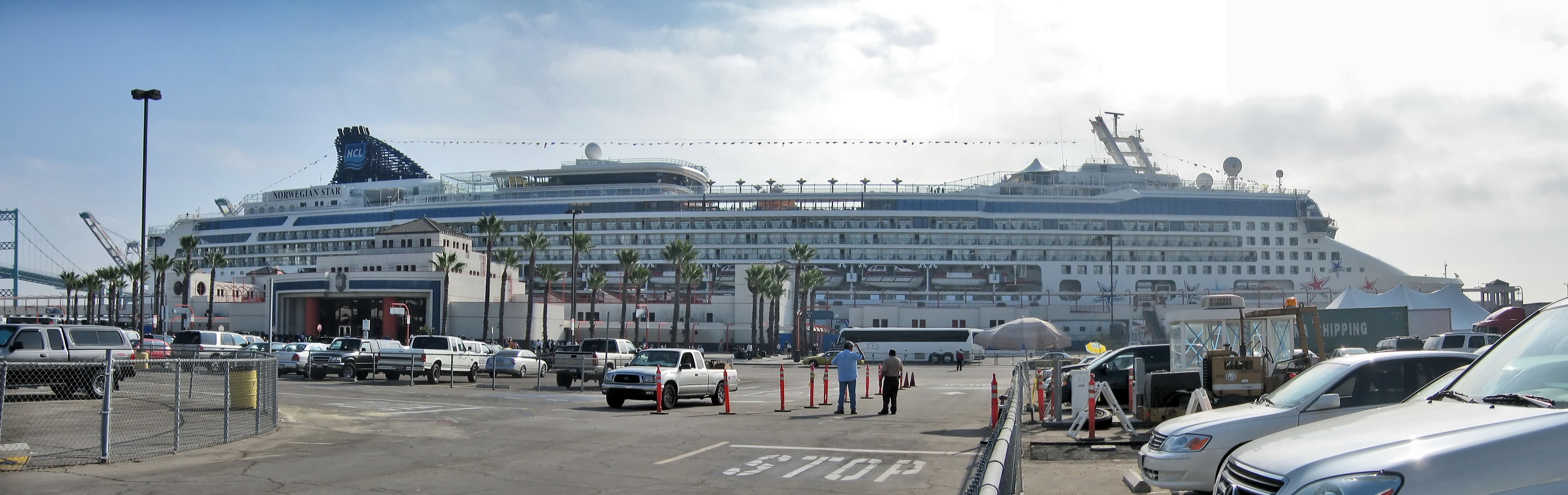 The Port of Los Angeles World Cruise Center Berth 91 as viewed from the long-term parking lot. The cruise ship Norwegian Star docked in October 2006 after a 10 day cruise in the Mexican Riviera.